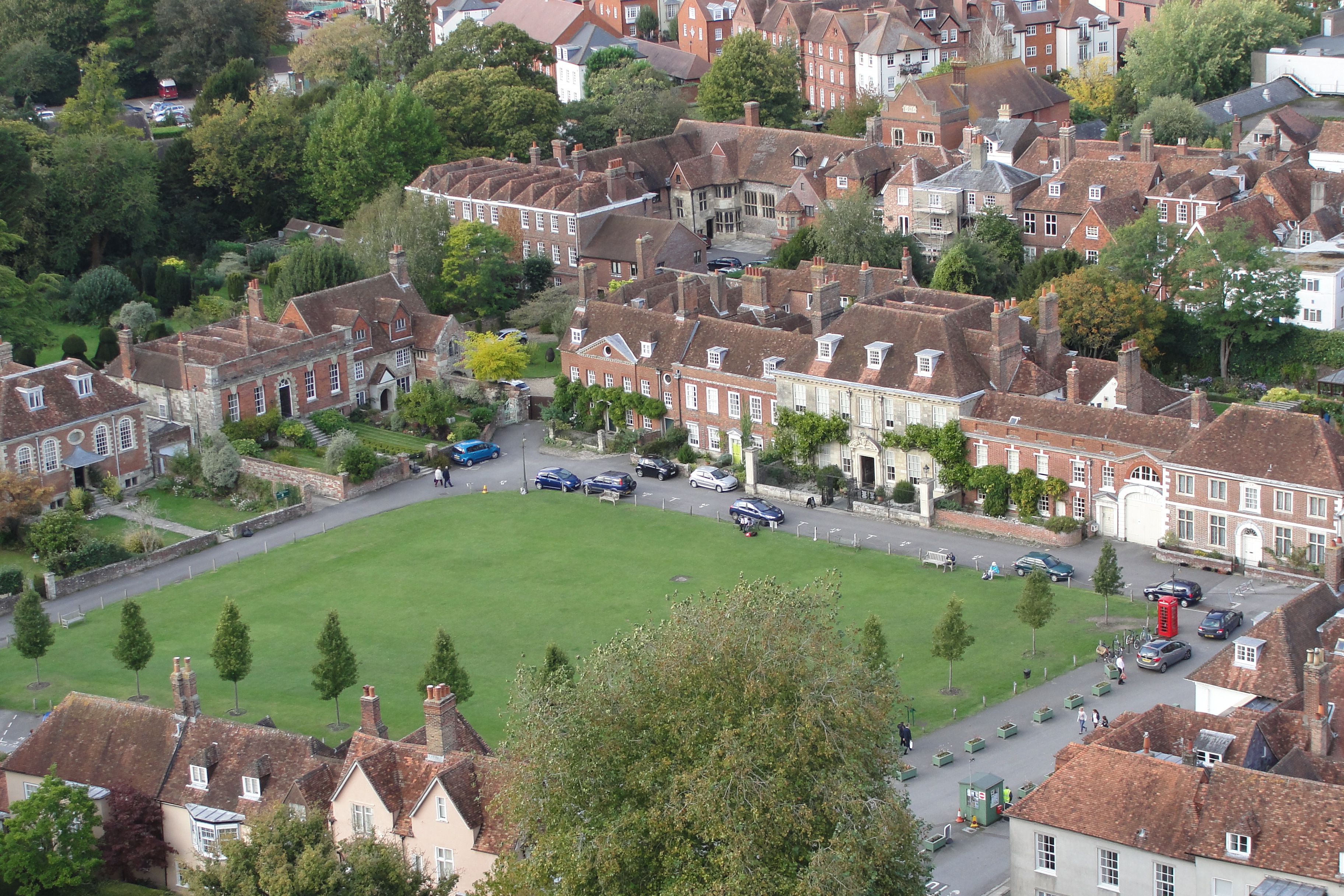 View of Choristers' Square from the cathedral tower